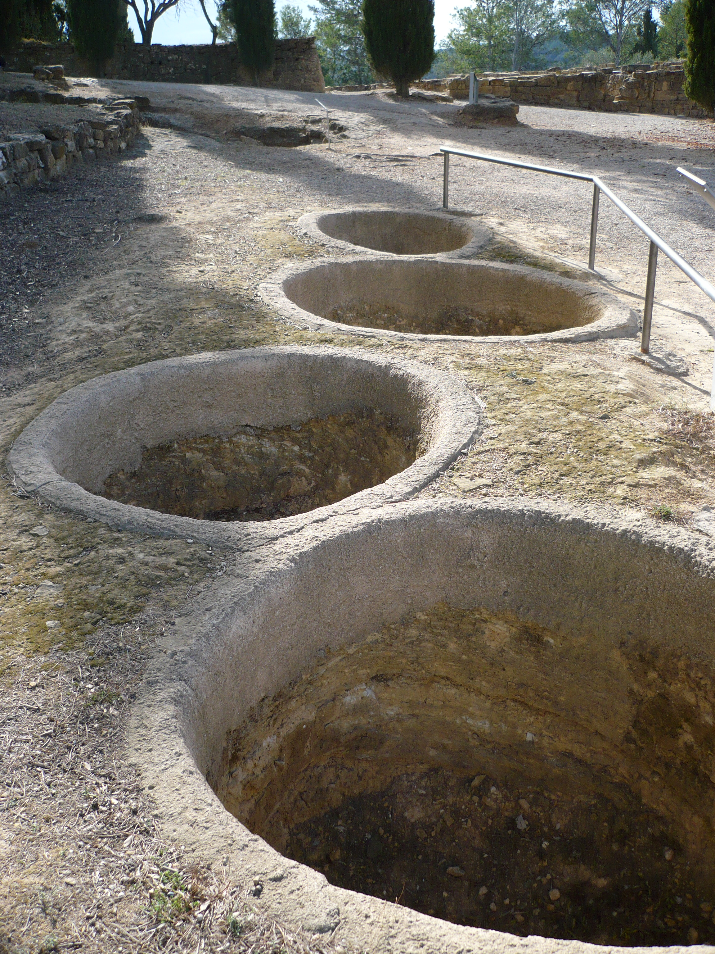 Iberian silos in Ullastret iberian archaelogical site (Baix Empordà, Catalonia)